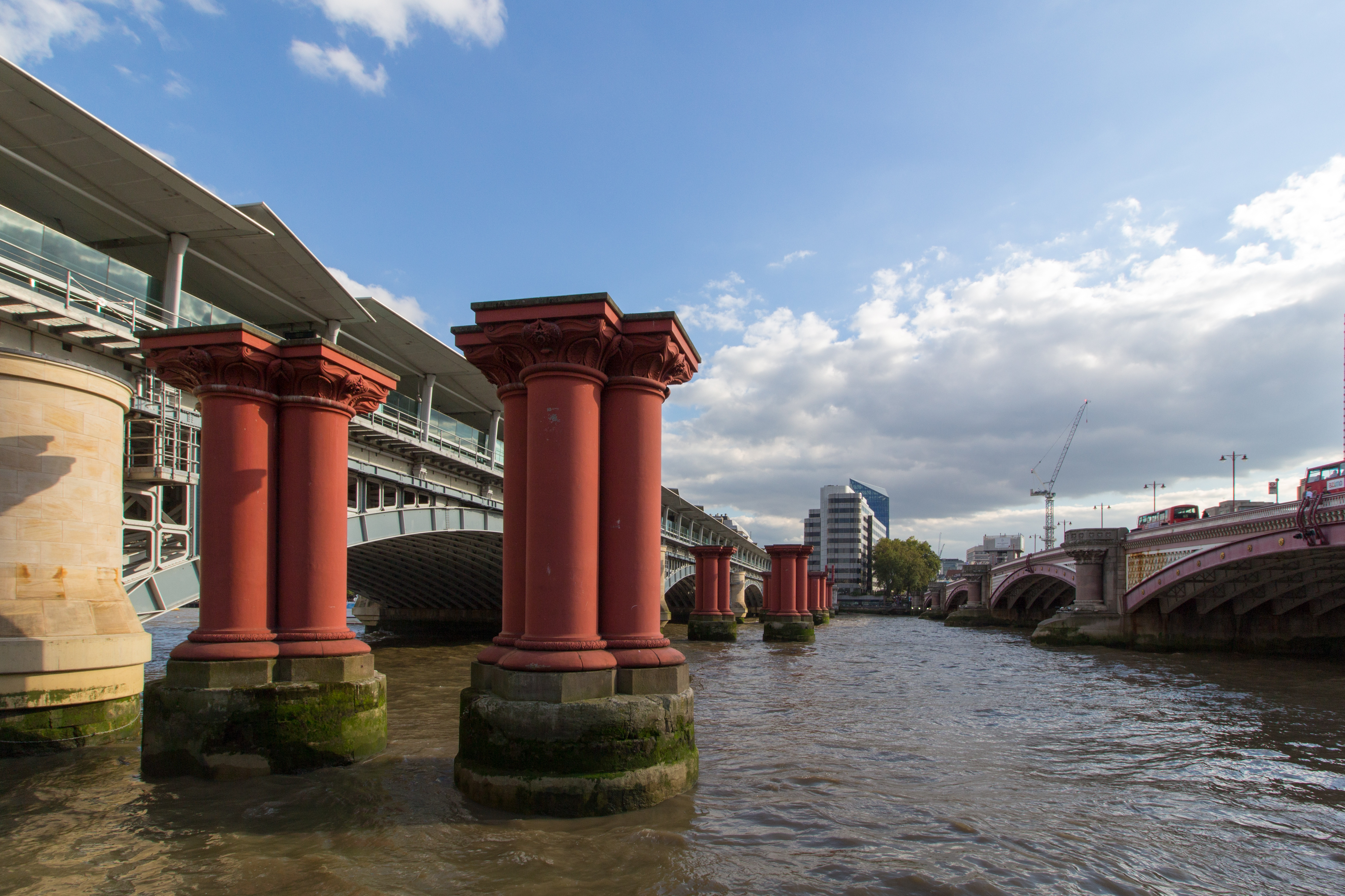 Pillars of the old Blackfriars Railway Bridge, looking from the north bank of the river. The new railway bridge (and station) is to the left, and the road bridge is to the right.